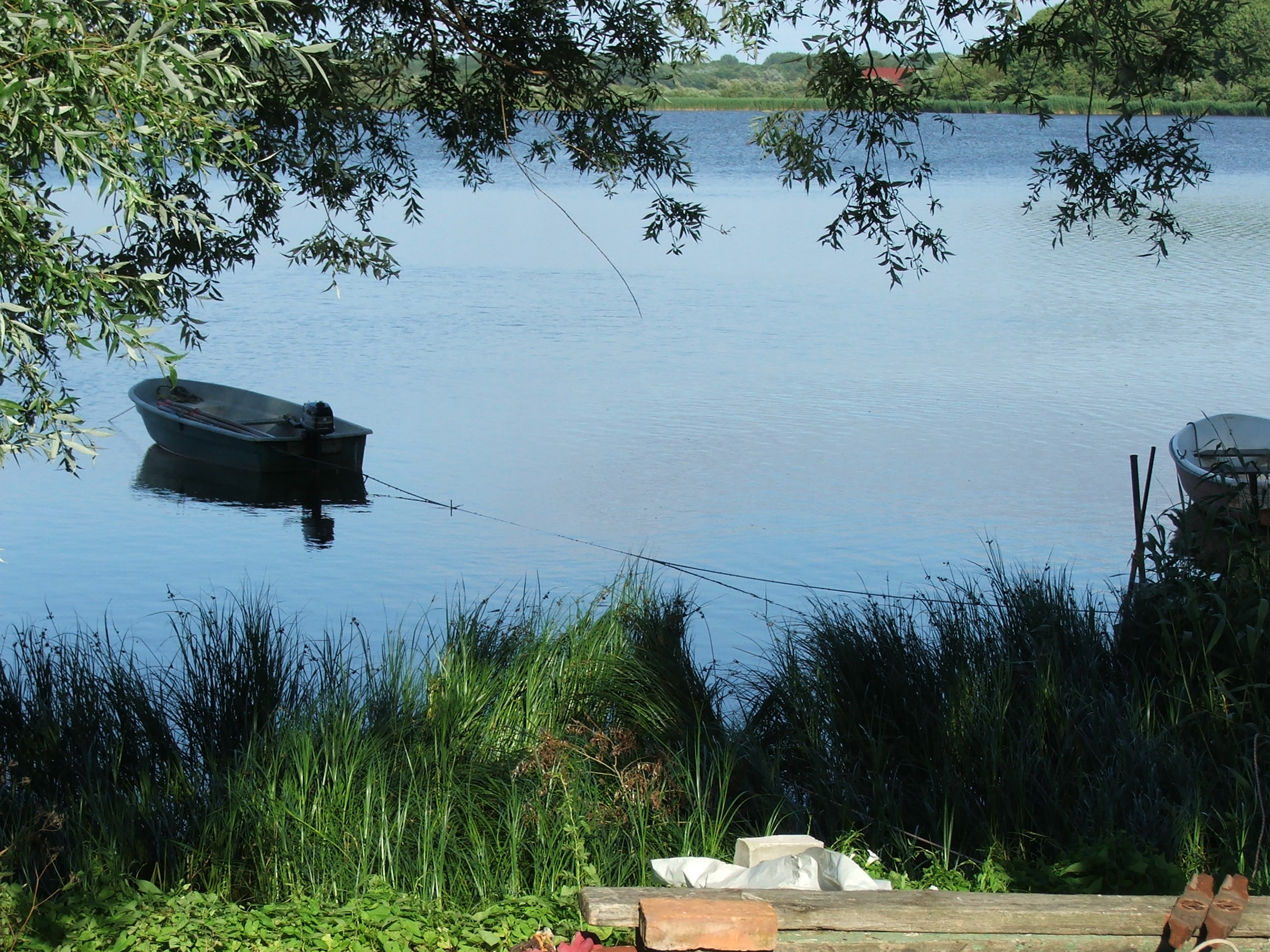 barrier lake in Prohn (Mecklenburg-West Pomerania, Germany)